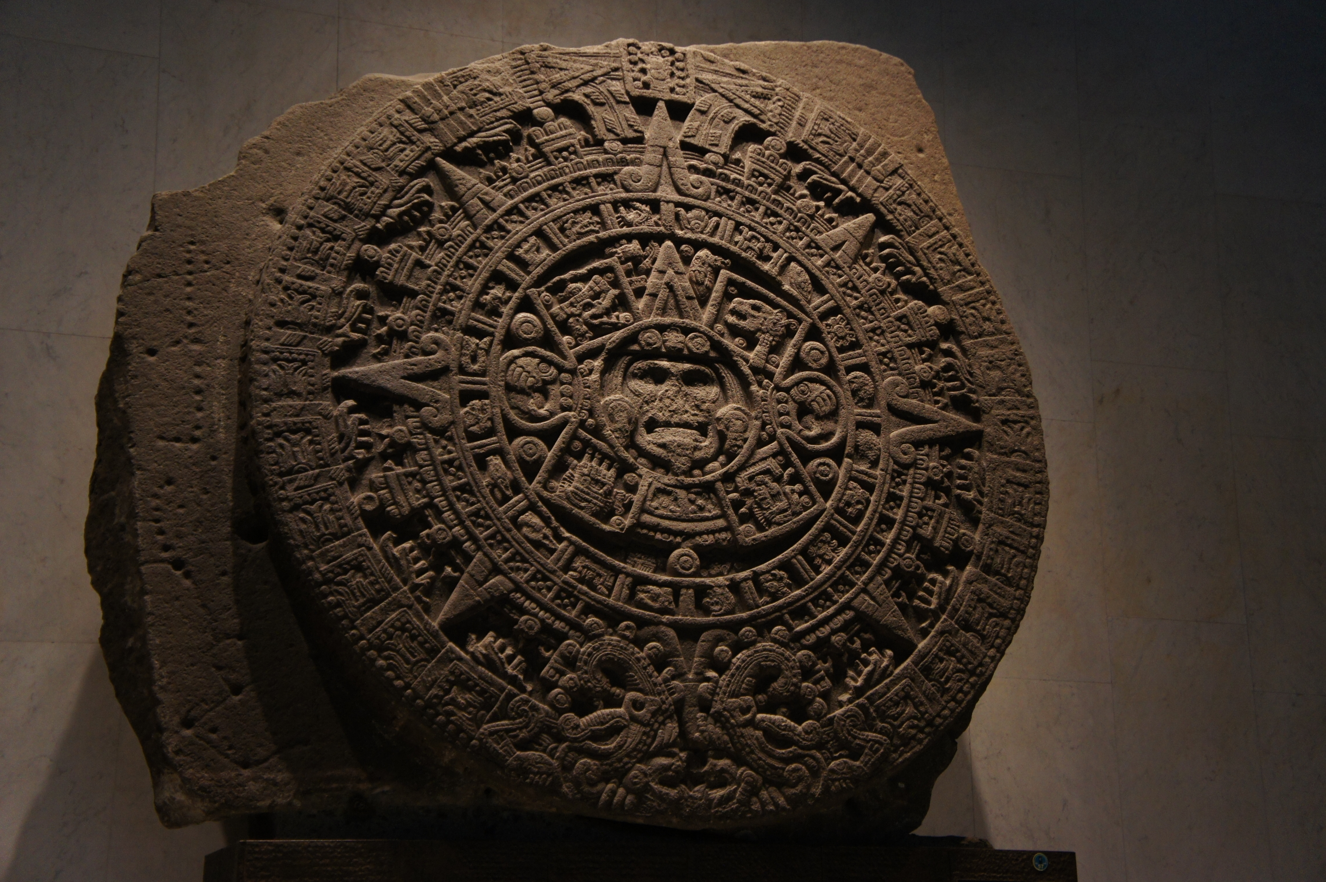 Aztec Stone of the Sun, National Museum of Anthropology, Mexico Citz